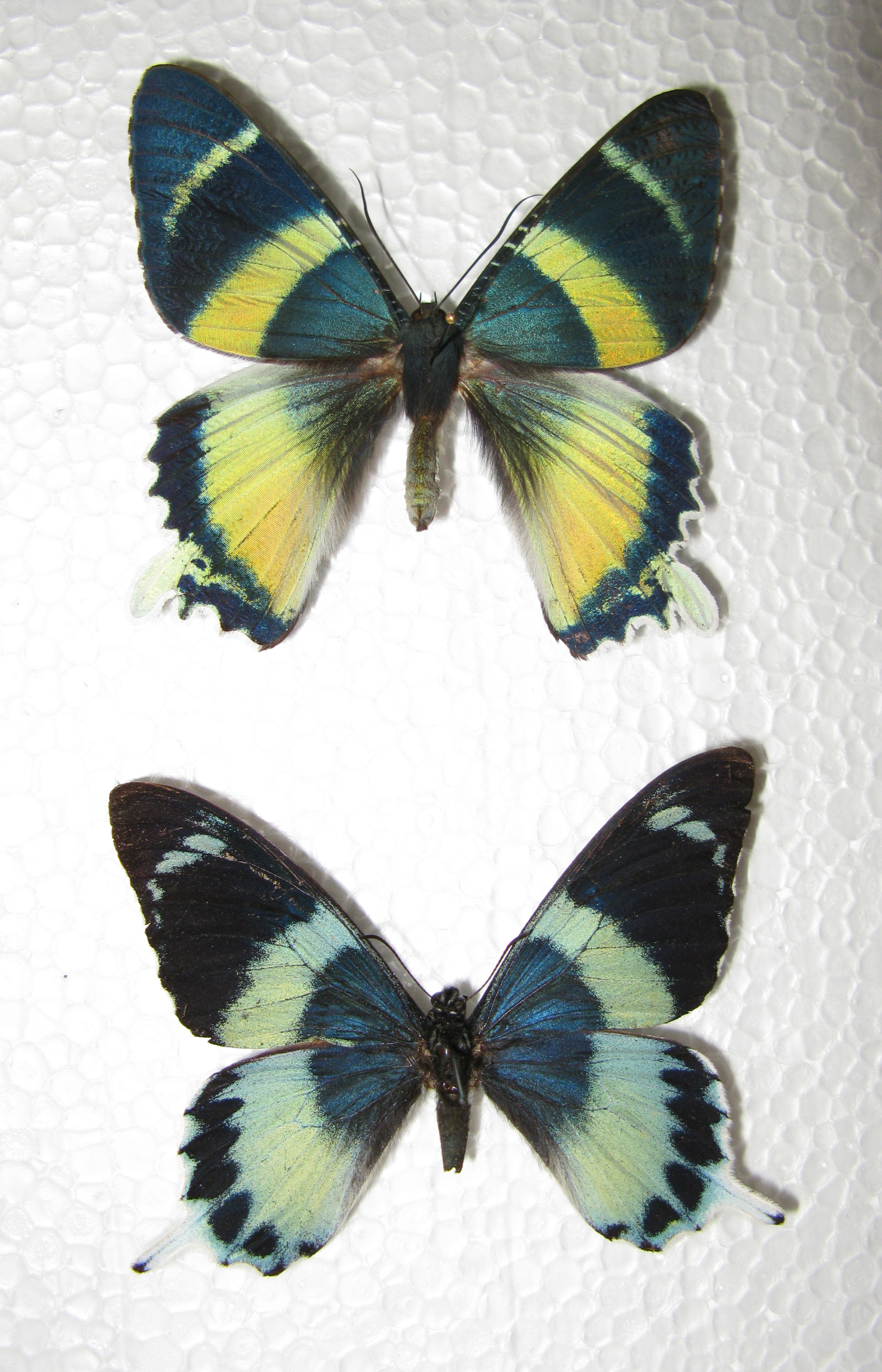 Uraniid moth Alcides agathyrsus (top) and papilionid butterfly Papilio laglaizei (bottom). An example of Müllerian mimicry.